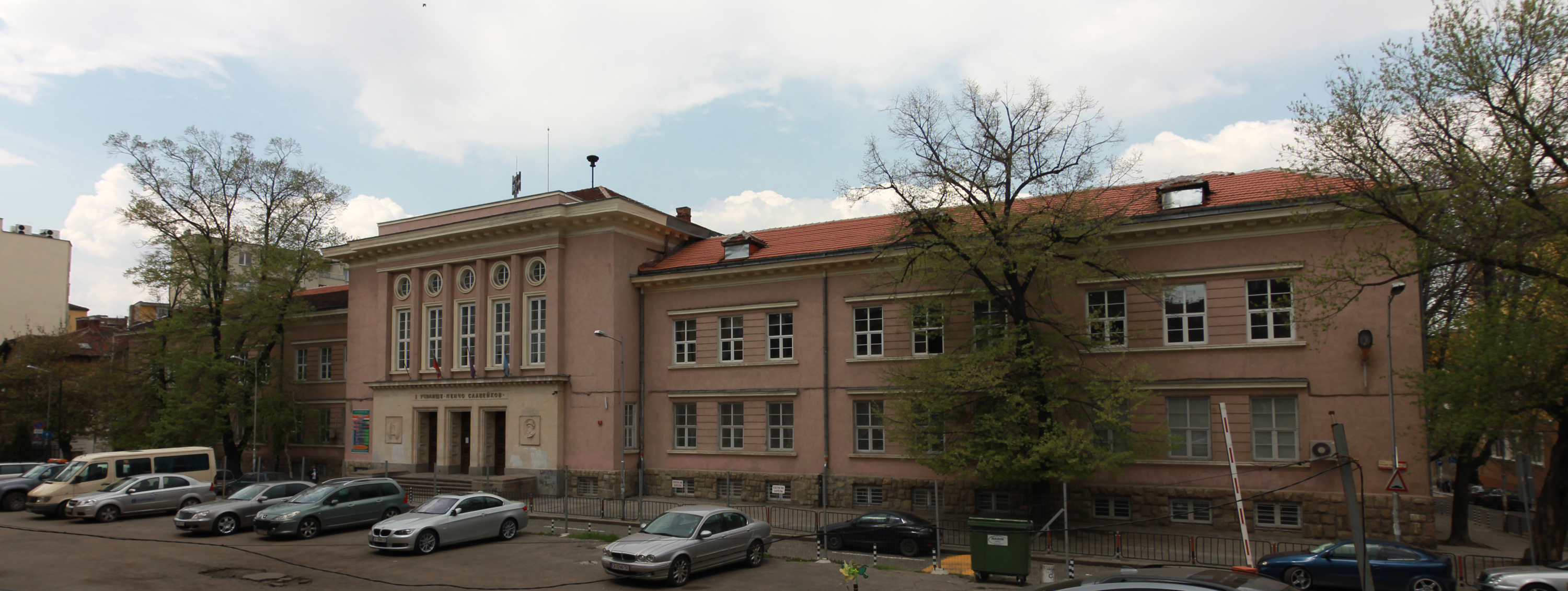 First Secondary School in Sofia